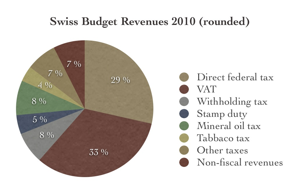 A diagram, showing the revenue of switzerland in the year 2010 (rounded percentage)